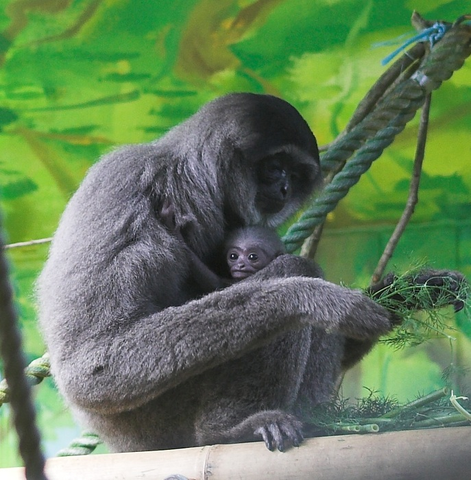 Silvery Gibbon